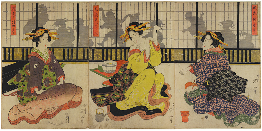 Geisha playing kitsune-ken (fox-ken), an early Japanese rock-paper-scissor or sansukumi-ken game. This print is by Kikukawa Eizan, who is known for producing woodblock prints in the bijin-ga genre. From left to right: Village head (庄屋 shōya), fox (狐 kitsune), and hunter (猟師 ryōshi). The fox defeats the village head, the village head defeats the hunter, and the hunter defeats the fox.